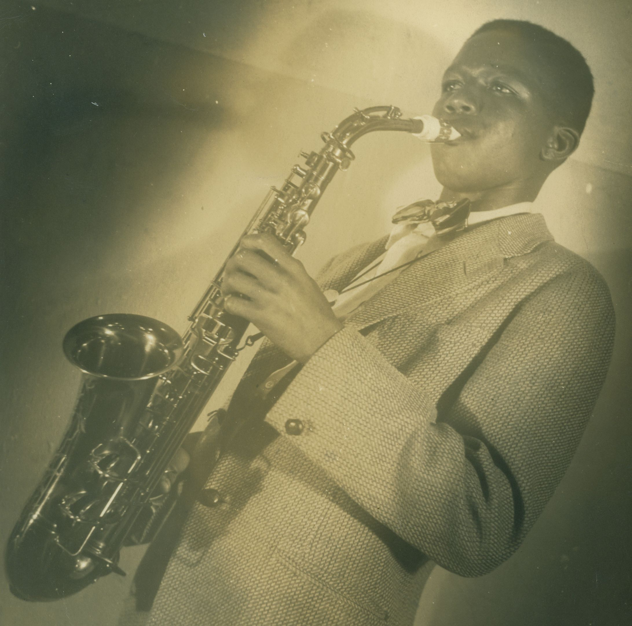 Pee Wee Moore as a young man with his saxophone.